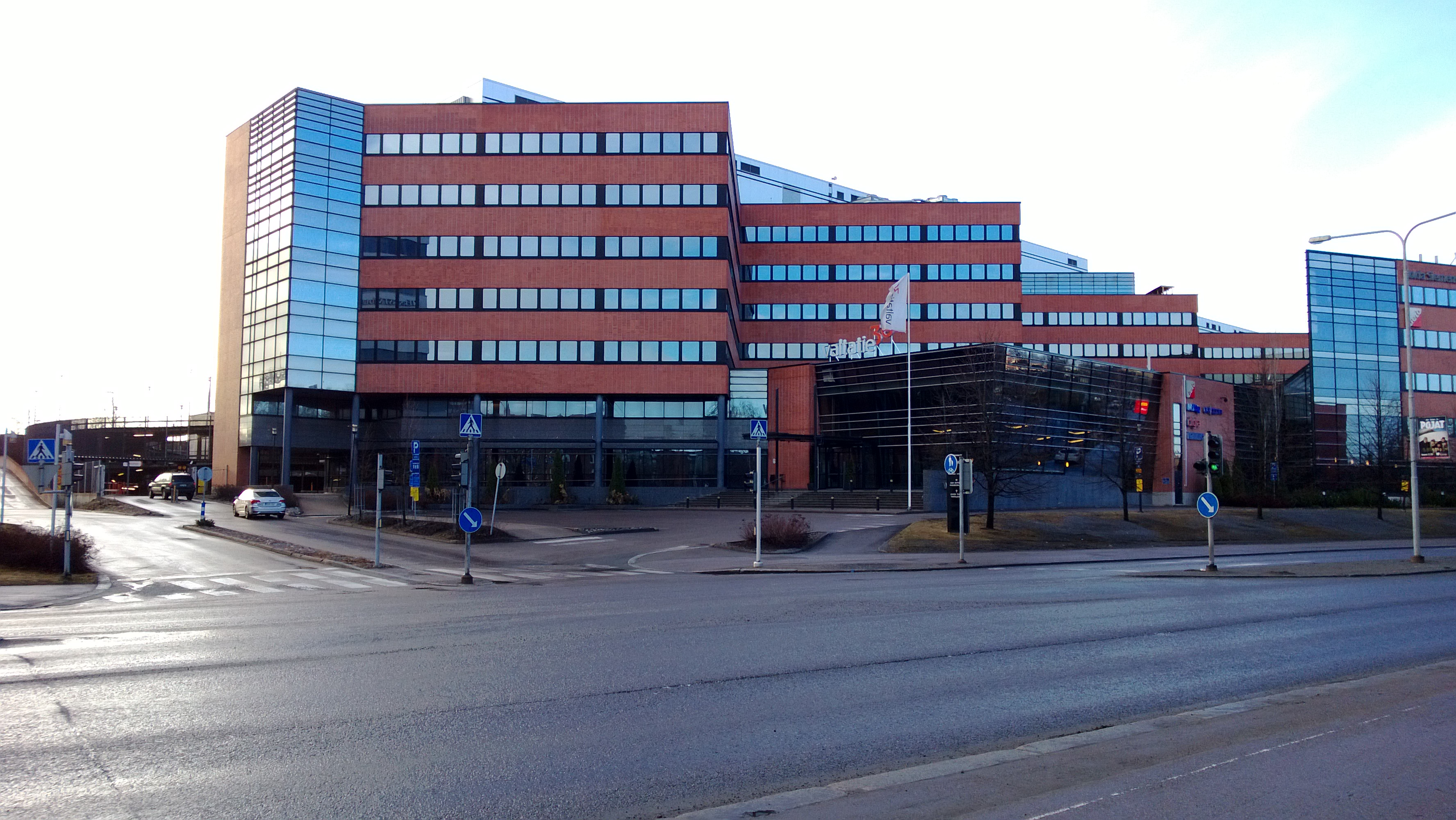 Offices of Nokia Networks in Tampere city in Finland. The building is called as Valtatie 30, which becomes from its address Hatanpään valtatie 30. The company has owned whole building years ago, but sold it to Aberdeen Real Estate Fund Finland in 2008. Nowadays the property is occupied by multiple tenants.